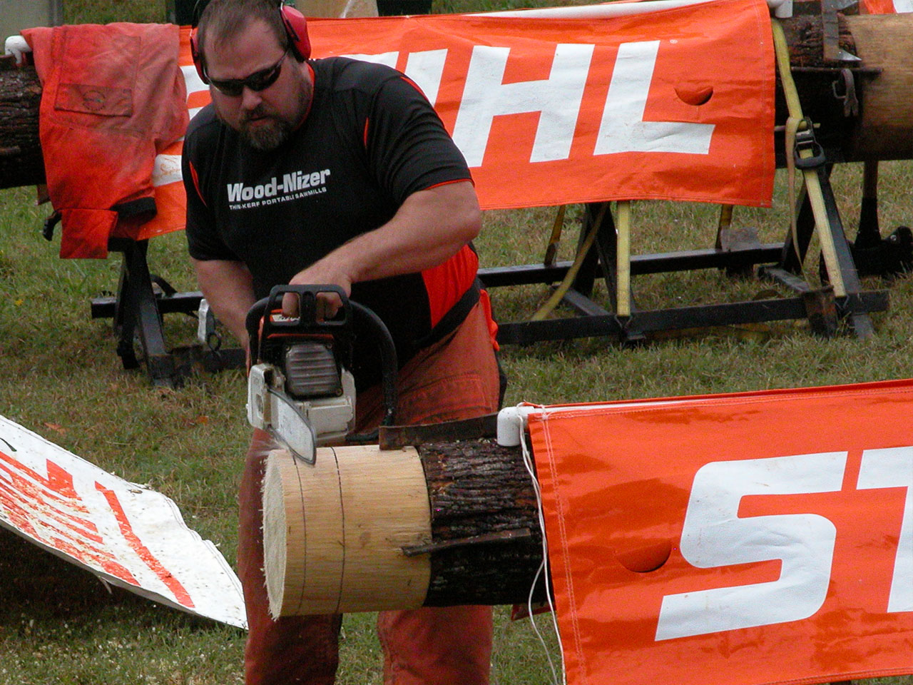 Lexington Barbecue Festival 2008, more lumberjack games.